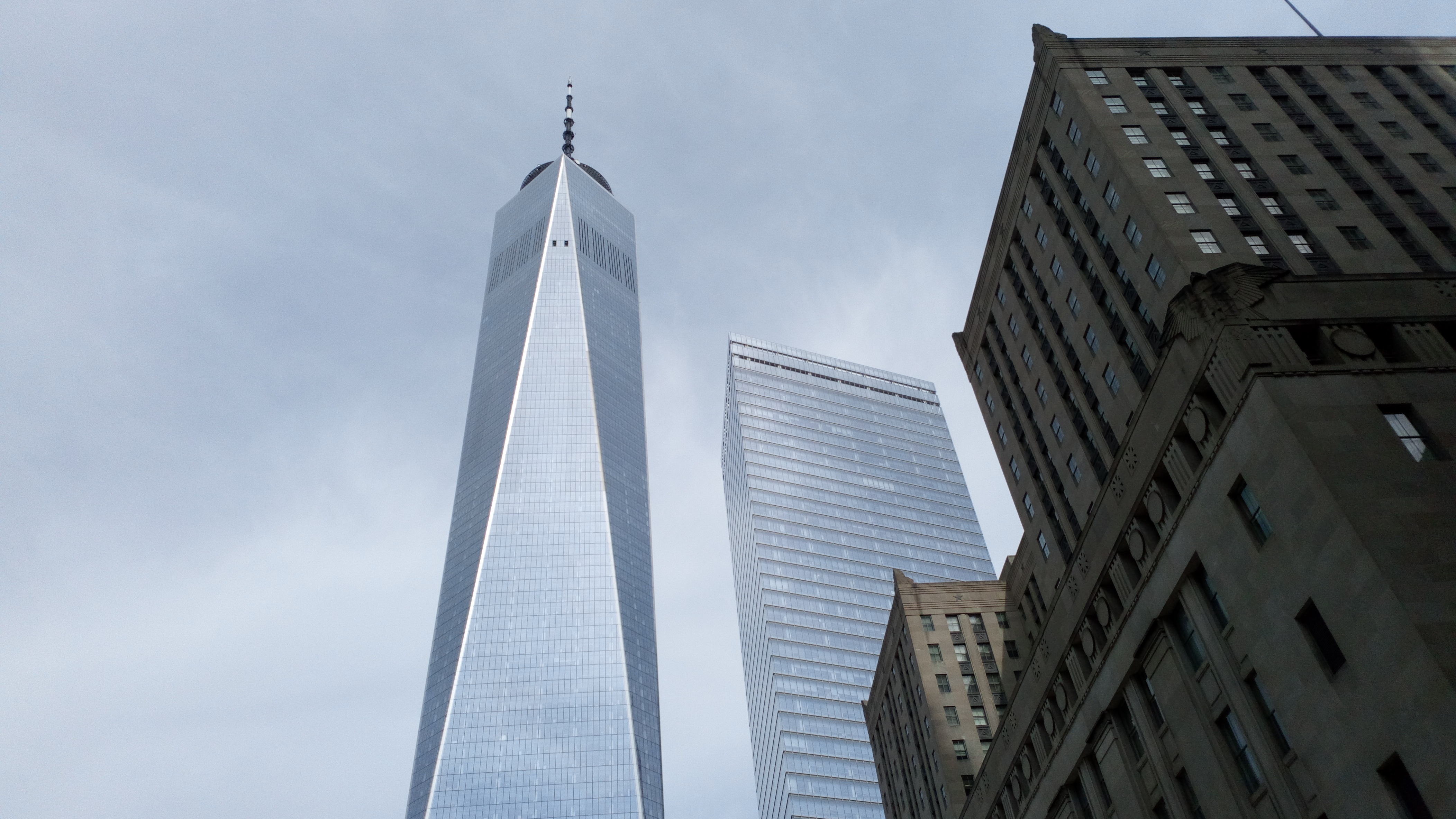 NYC, the United States of America